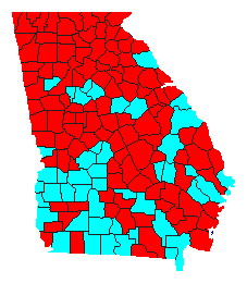 Georgia Lt. gubernatorial Democratic primary county map